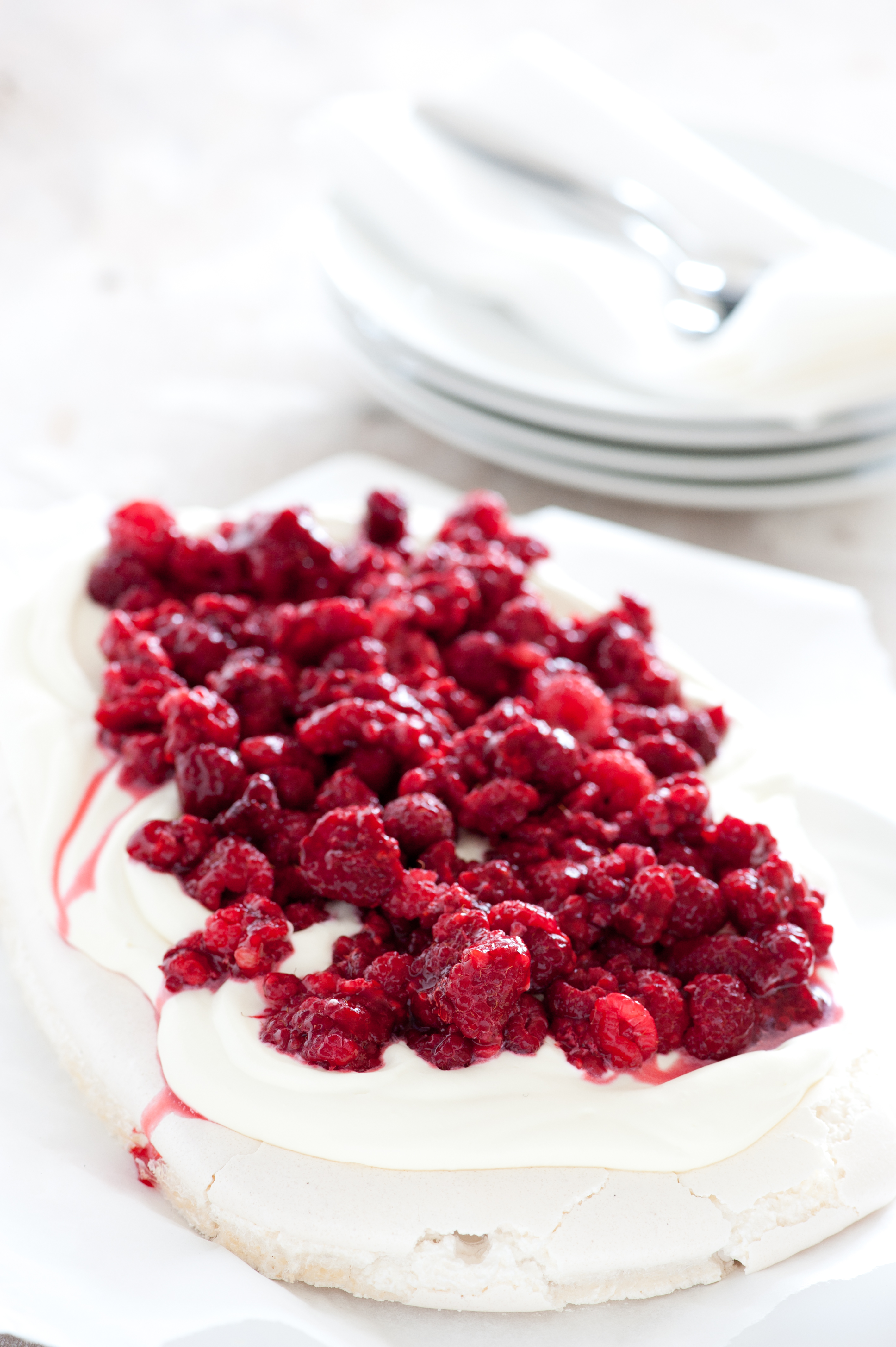 A Pavlova dessert with berries.